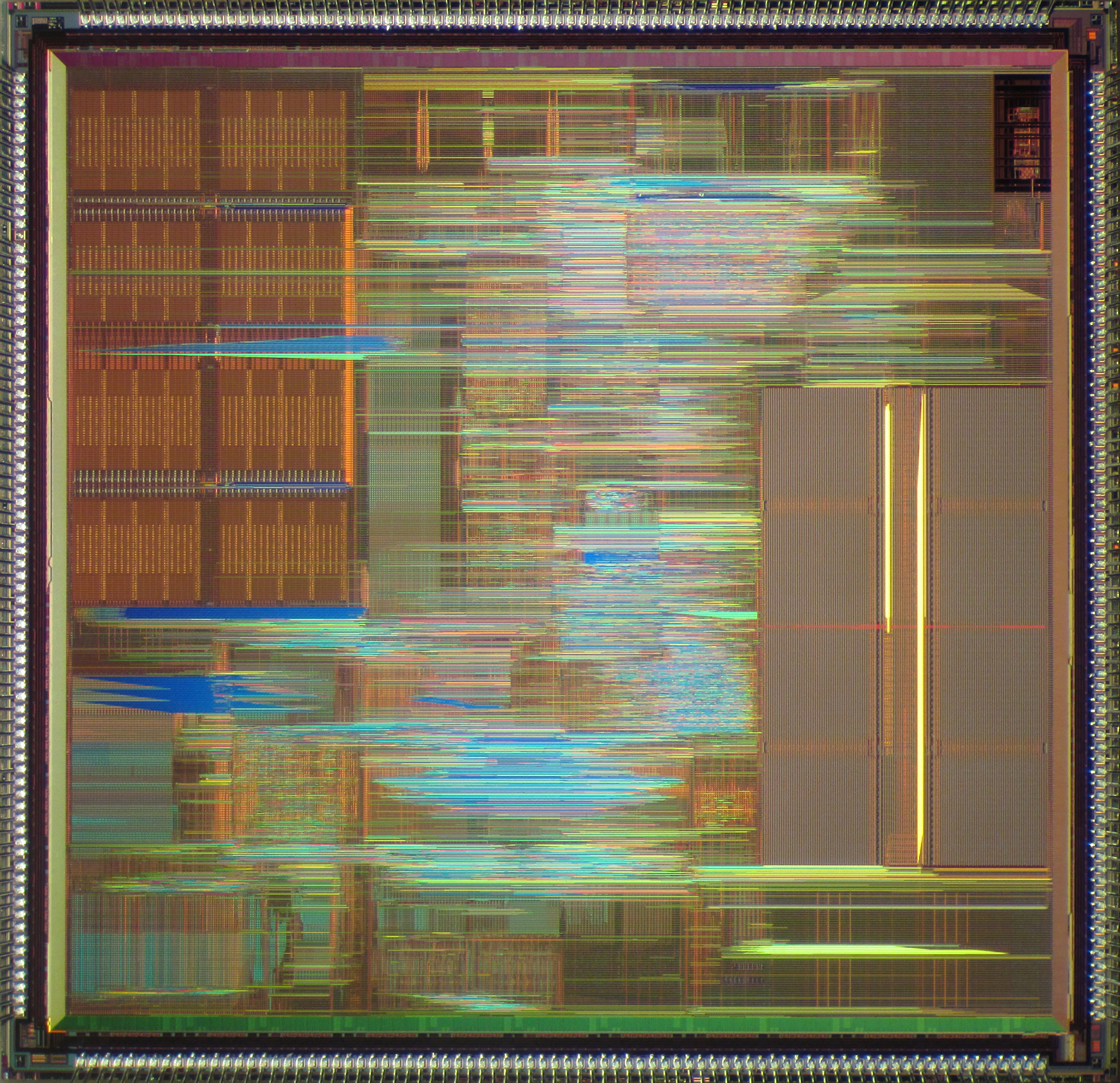 Die shot of IDT WinChip 2A microprocessor (W2A-3DEE233GTA).